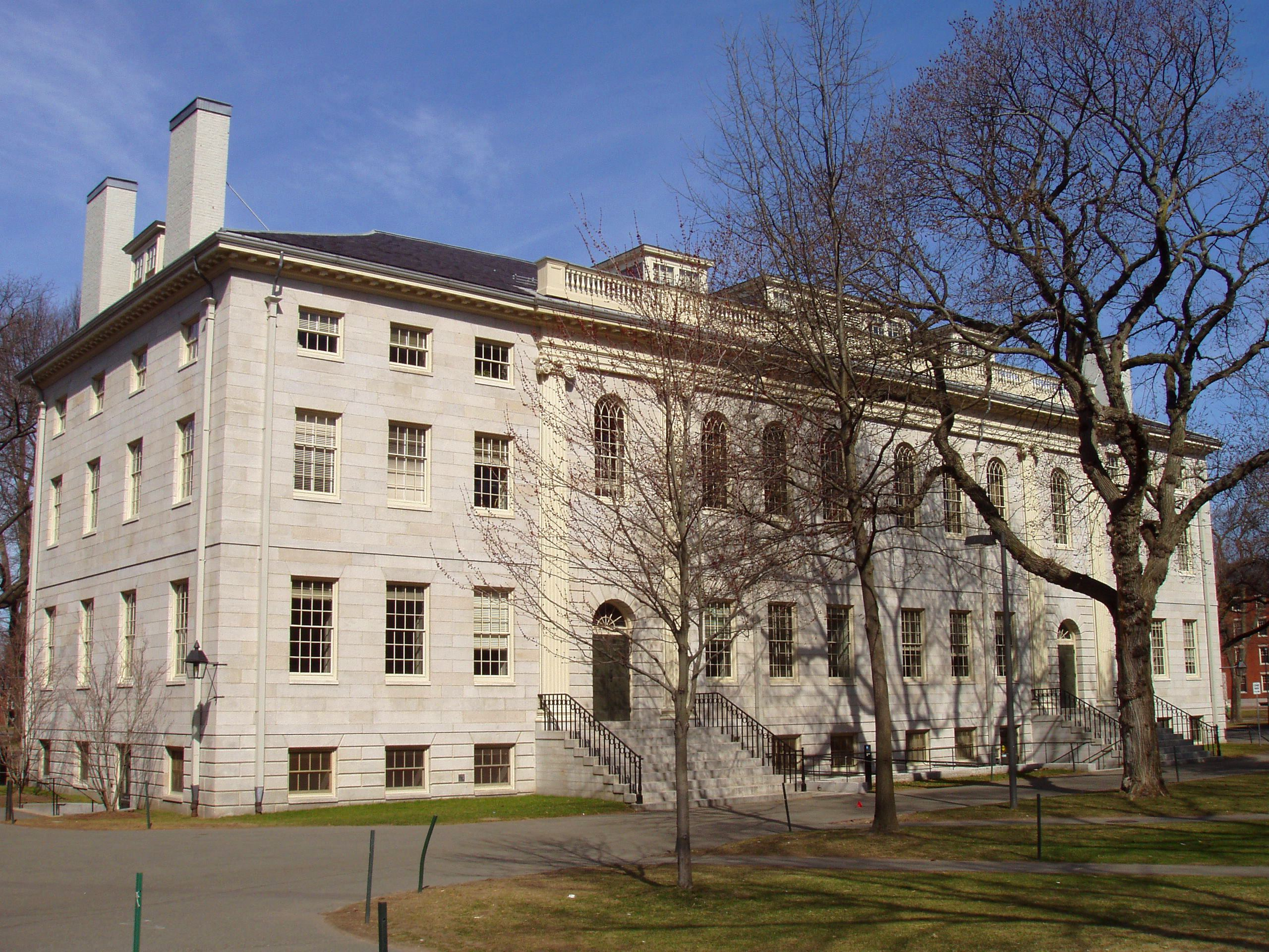 Photograph of University Hall, Harvard University, Cambridge, Massachusetts, USA. Charles Bulfinch, architect. East facade.